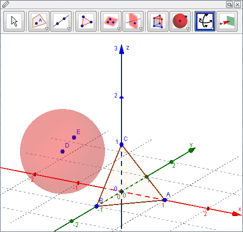 Screenshot of GeoGebra 5.0 Beta - 3.9.171.0. with A(1,0,0) B(0,-1,0) C(0,0,1); sphere D-E; polygon A-B-C